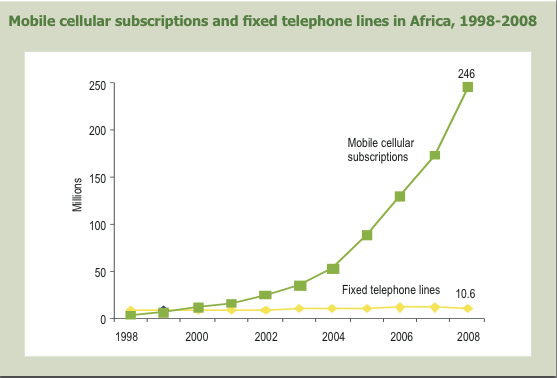 Mobile phones more abundant than Landlines